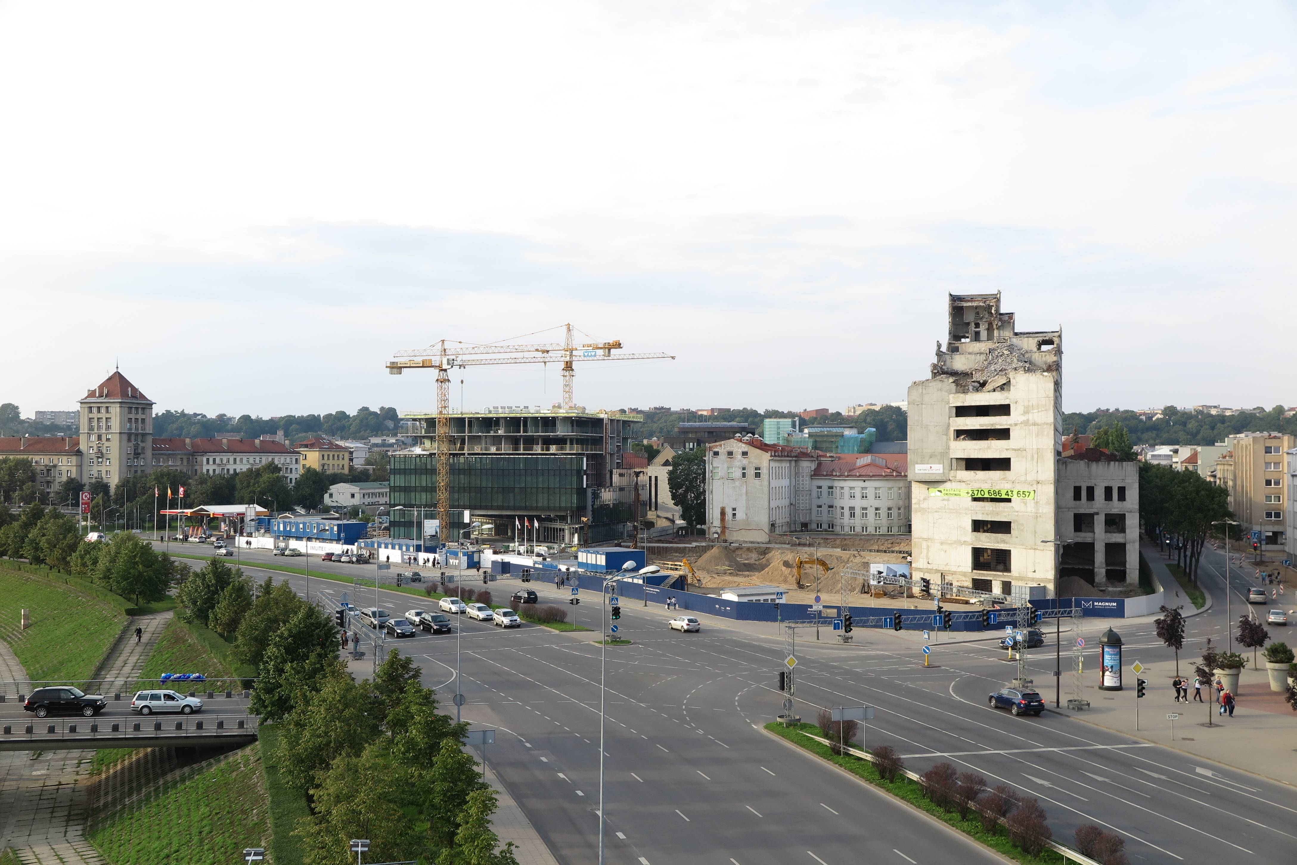 Office building "Arka" in Kaunas, Lithuania. Developed by Imlitex Holdings.